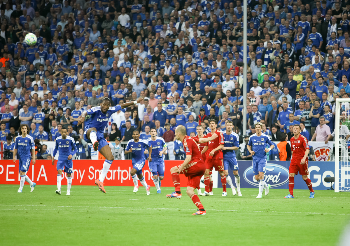 Didier Drogba shoots the ball away after a free kick of Bayern Munich at the end of the first extra time period of the UEFA Champions League Final 2012